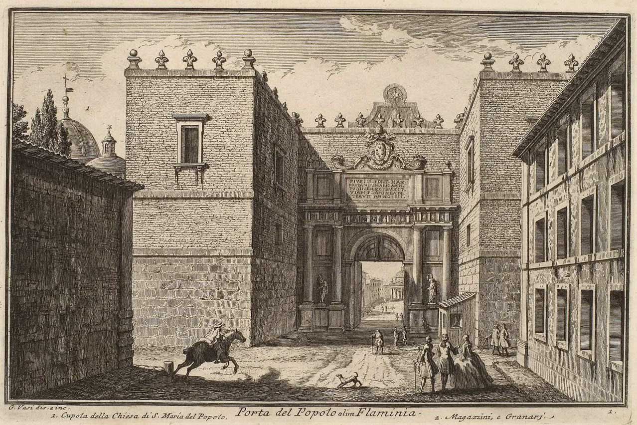 1) Dome of S. Maria del Popolo; 2) warehouses and granaries.